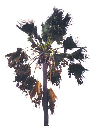 Village Weaver colony in The Gambia.